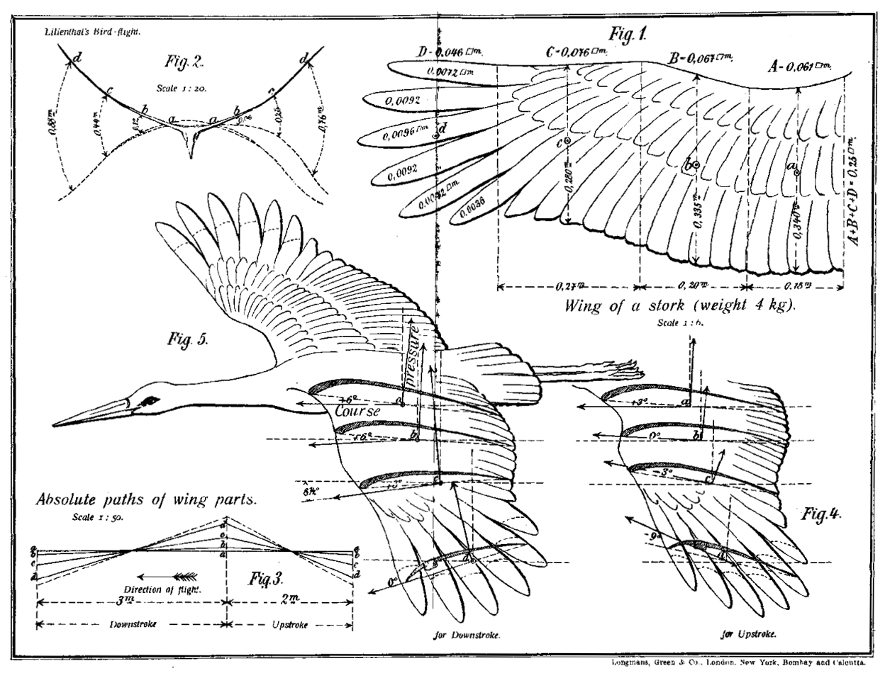 Illustration of the flight of a white stork by Otto Lilienthal in Der Vogelflug als Grundlage der Fliegekunst published in 1889. English translation published in 1911.